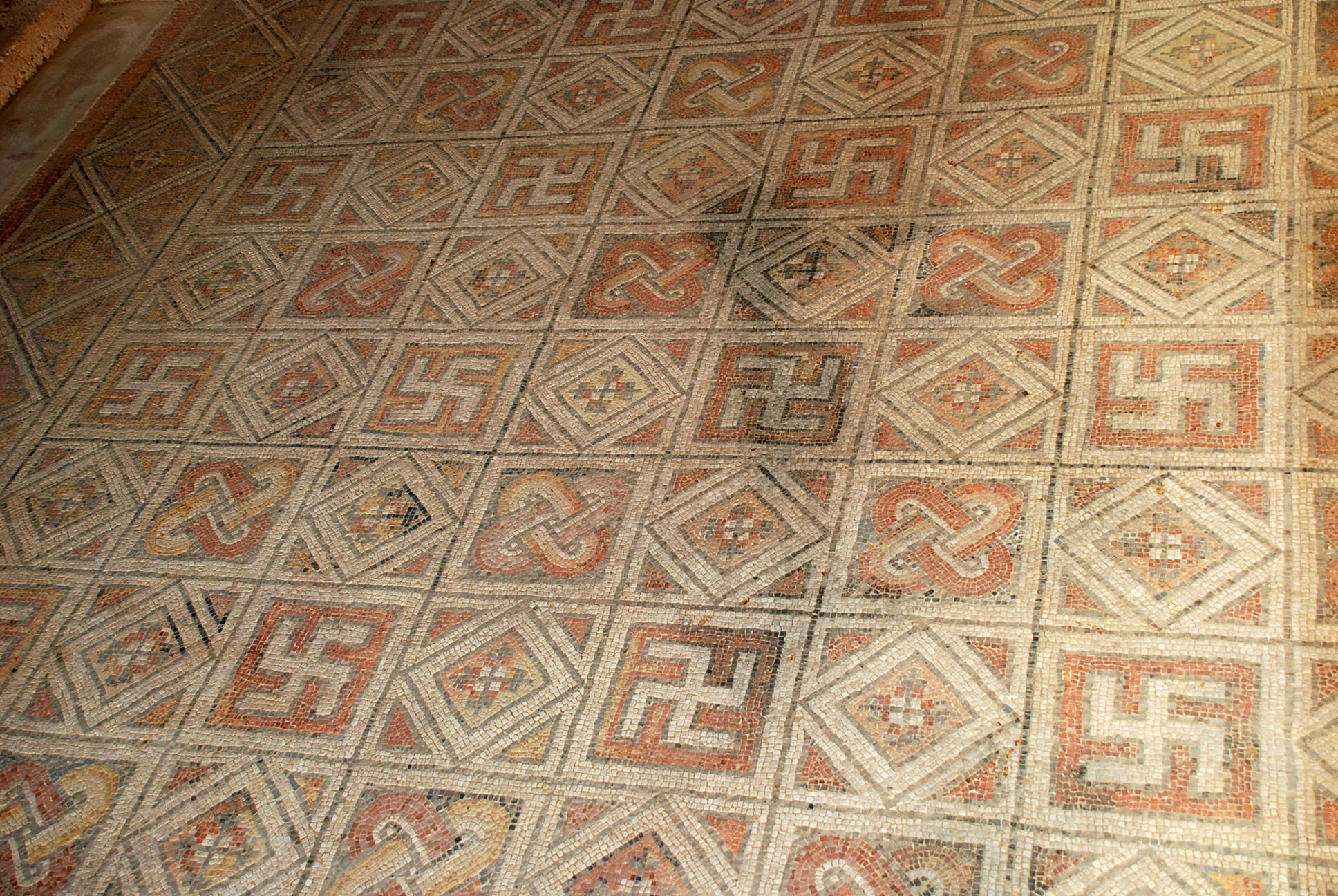 Geometric roman mosaic in roman villae of La Olmeda, Pedrosa de la Vega (Palencia, Castile and León).